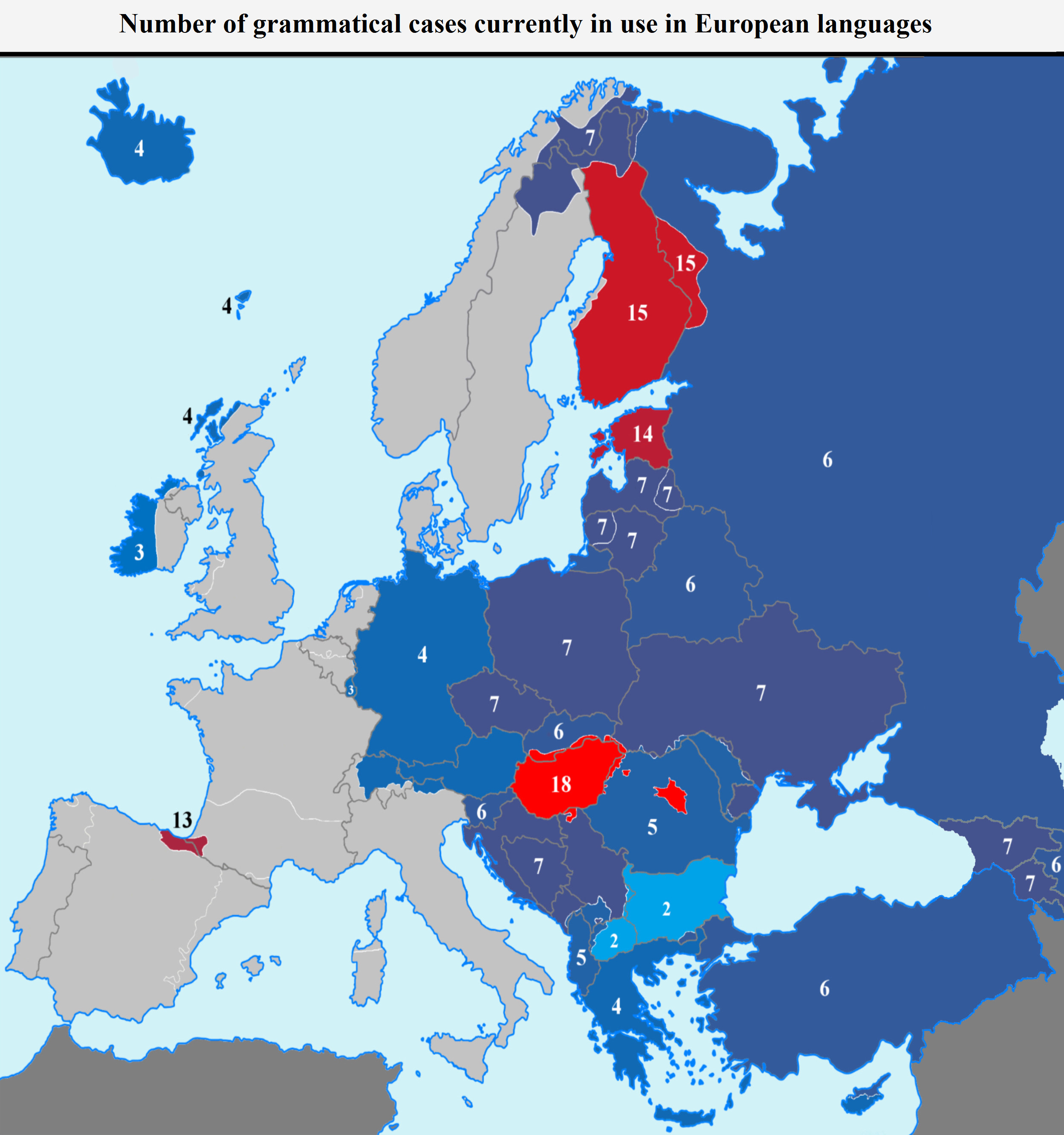 Number of grammatical cases currently in use in European languages.